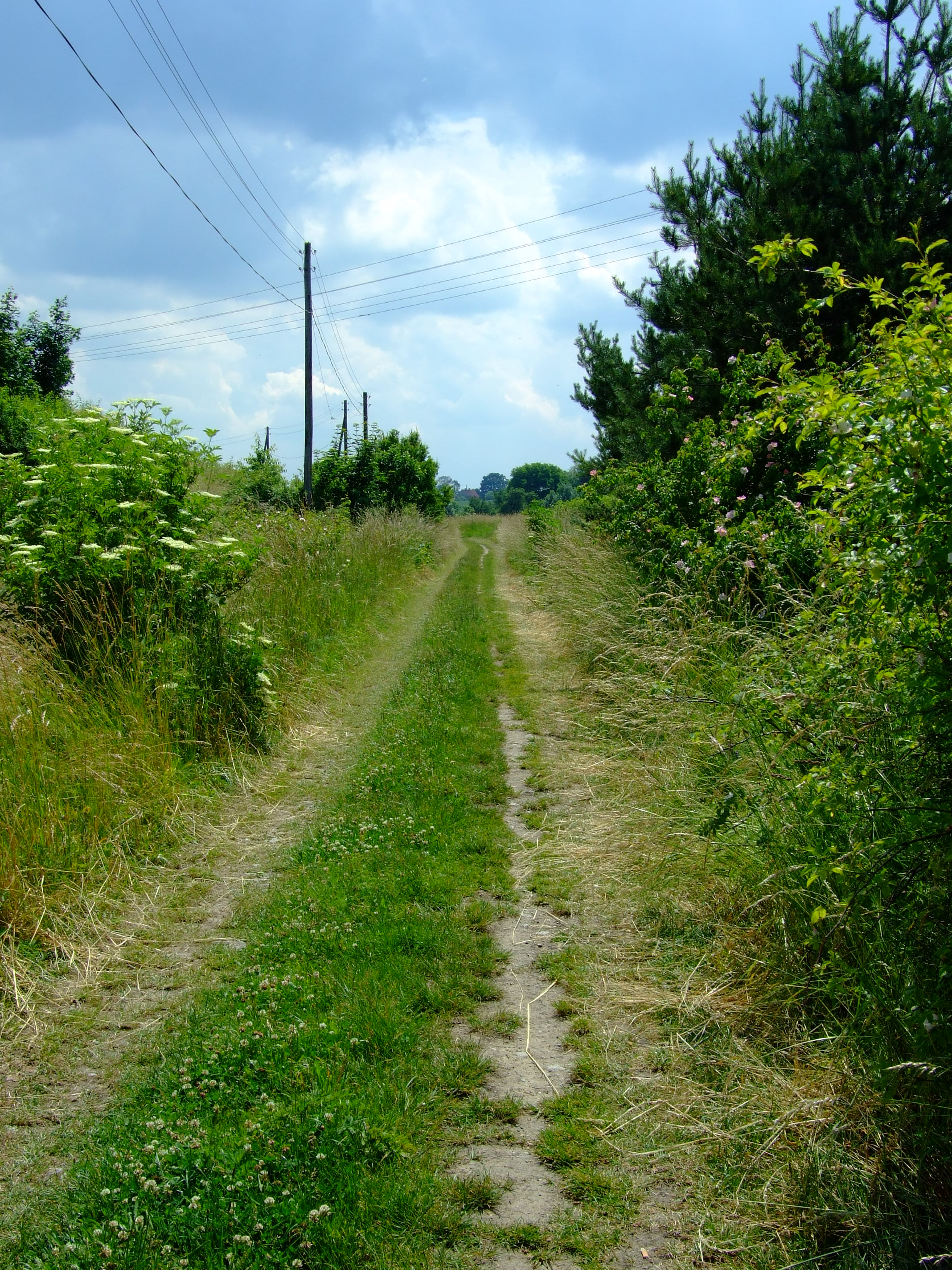 Former rail track in Červený Újezdhelp